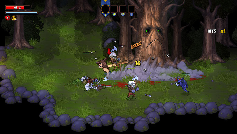 video game screenshots